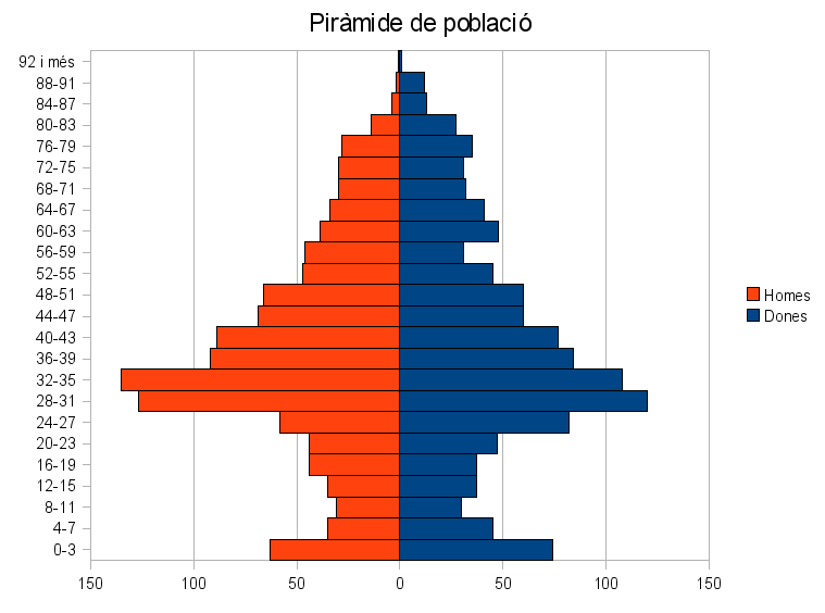 Massalfassar's population pyramid. January 2009